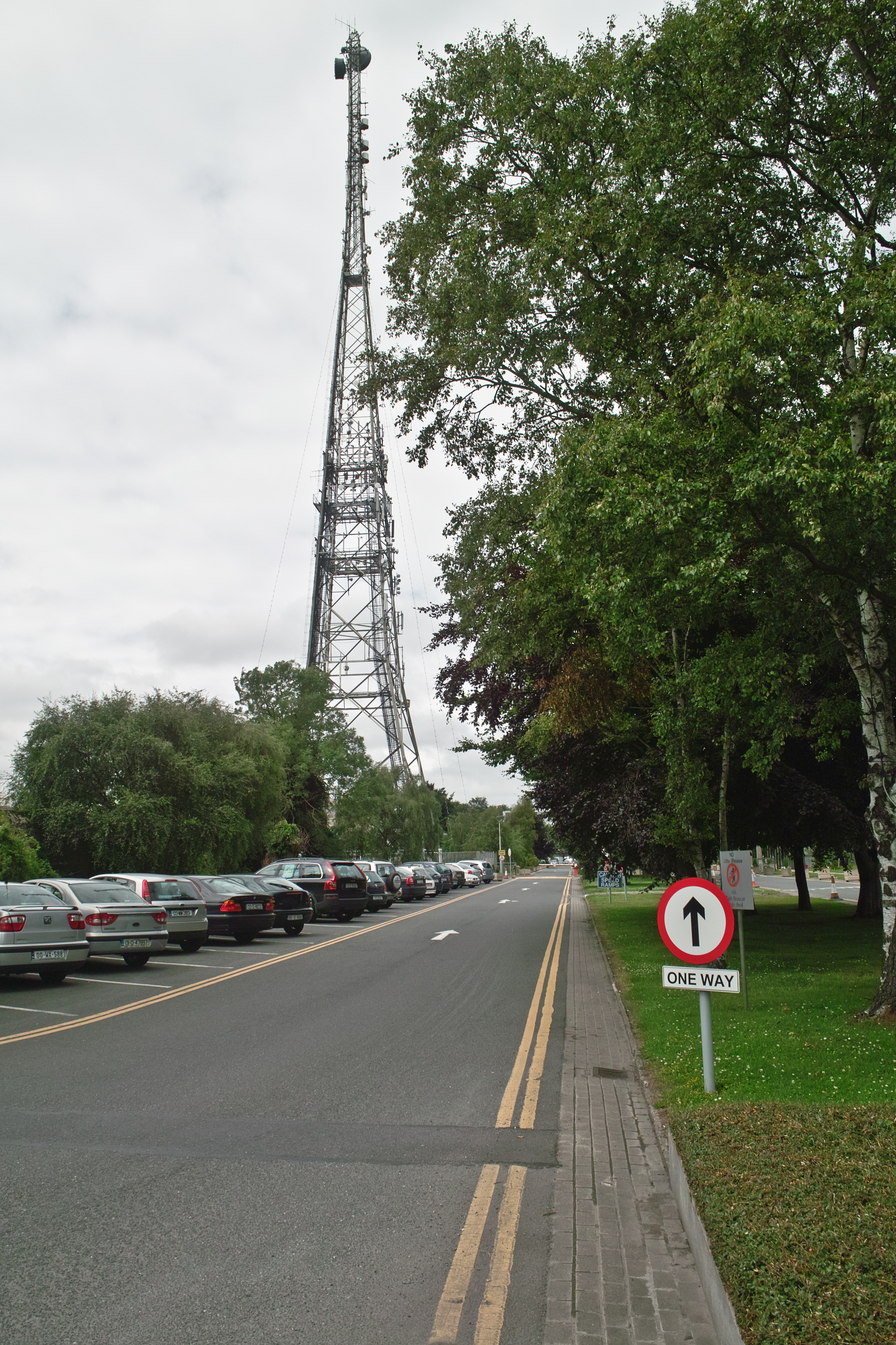 Picture of RTÉ Studios in Donnybrook